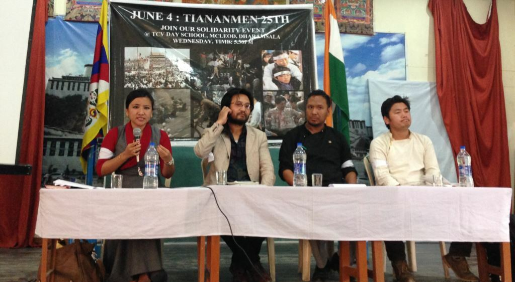 Four young Tibetan youth discussed their way of looking at the Tiananmen movement, and the reasons behind Tibetan solidarity. The speakers were Miss Tenzin Dhadon Sharling, Member of the Tibetan Parliament-in-exile; Tenzin Jigme, President of the Tibetan Youth Congress; Lukar Jam, Executive member of the Gu Chu Sum Movement of Tibet; and Dorjee Tseten, Students for a Free Tibet Asia Director.